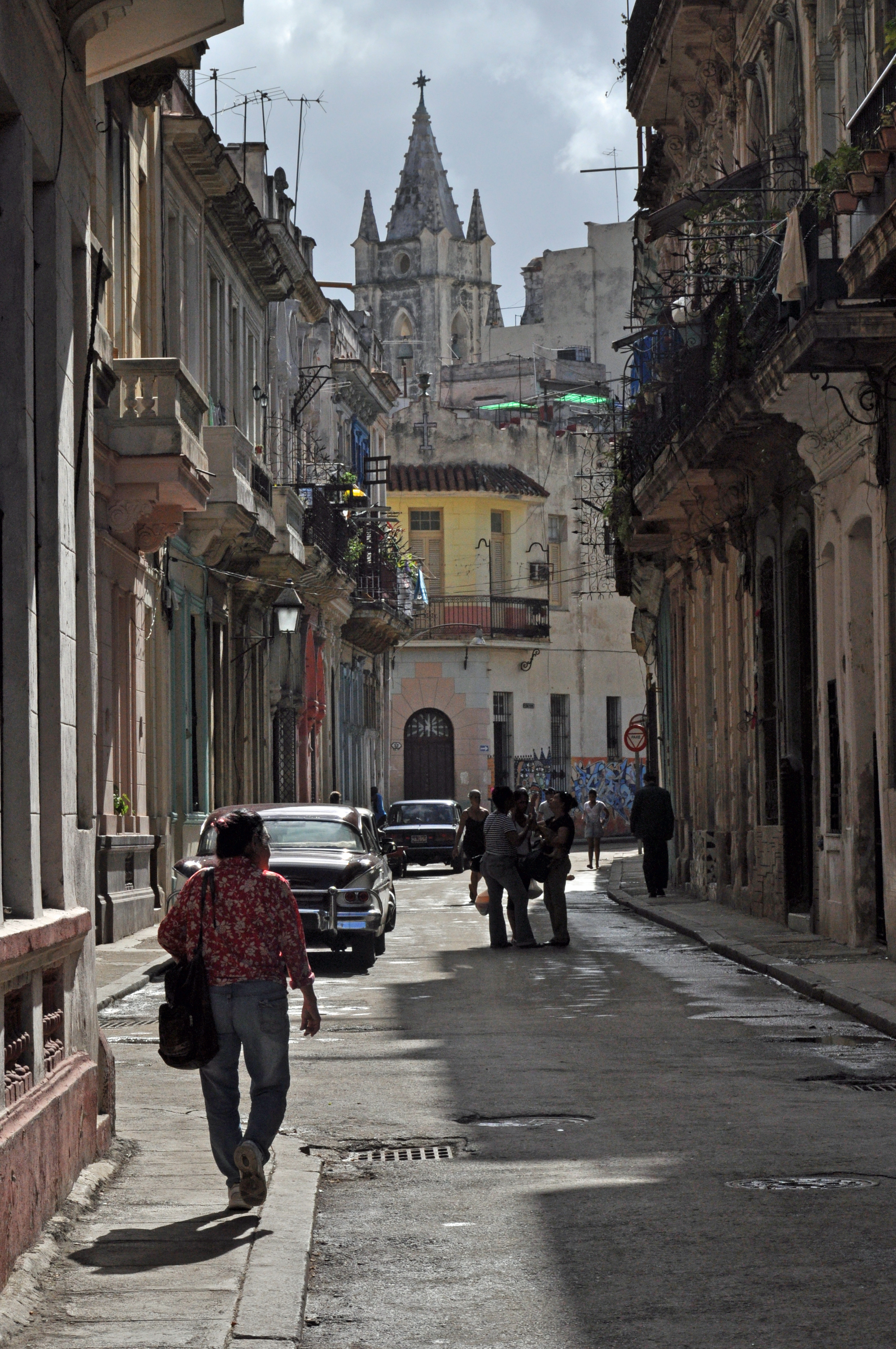 Street in Old Havana